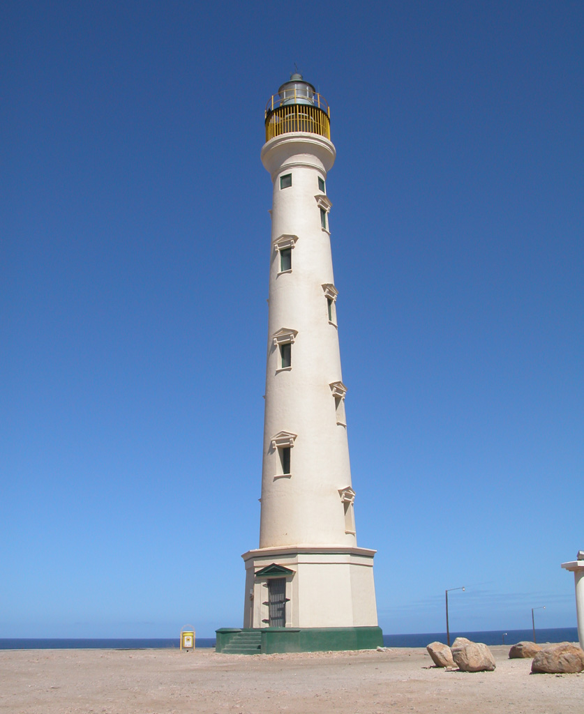 Taken by me in Jan 2003